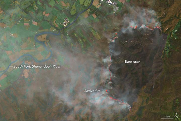 Burn scar from Rocky Mount fire in Shenandoah National Park, April 22, 2016